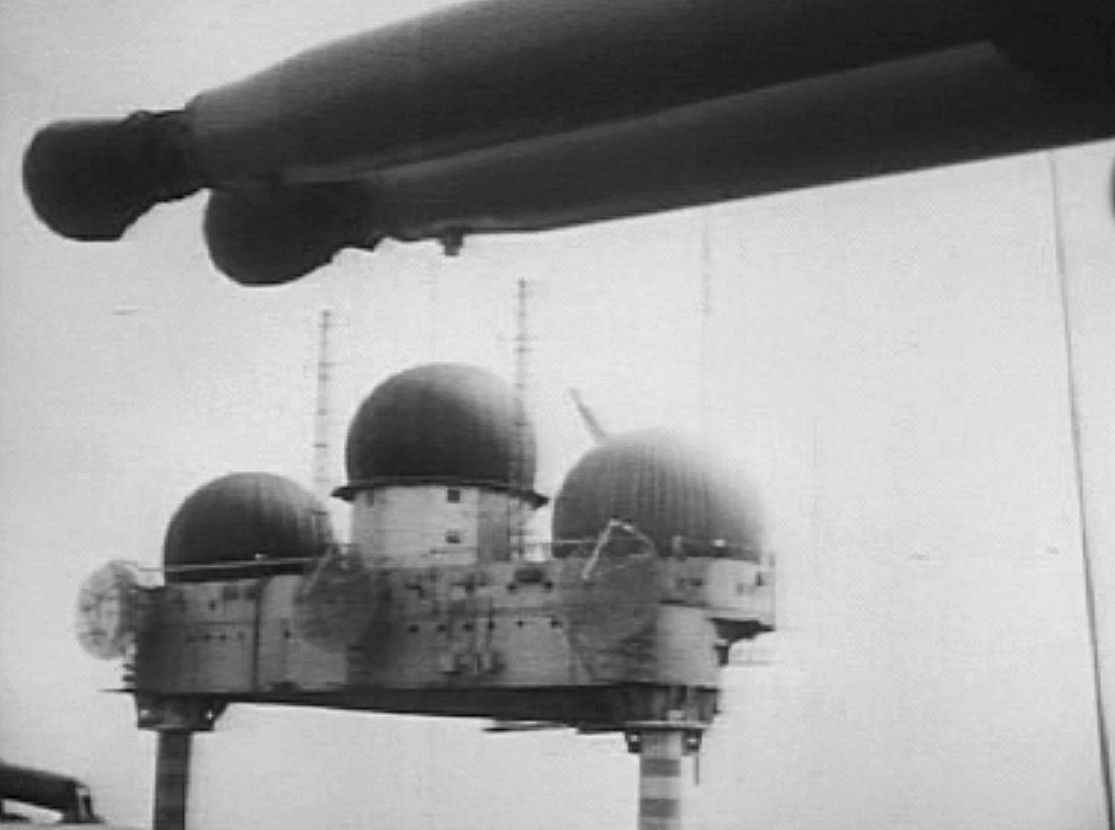 Video capture image of Texas Tower 2, 1956.